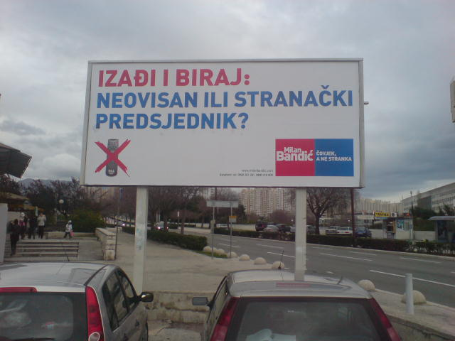 A poster for Milan Bandić, a candidate of the 2009-2010 Croatian presidential election